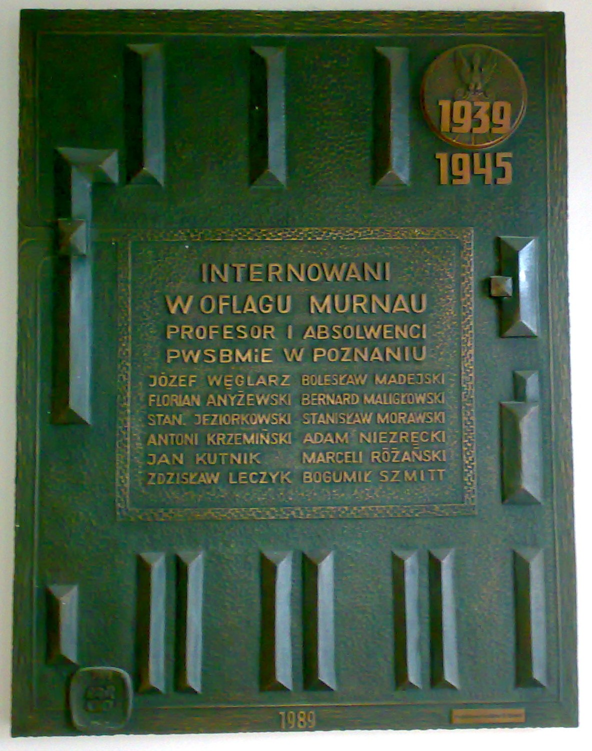 Memorial tablet to victims Oflag Murnau. Rector of the University of Technology in Poznań, Rynek Wildecki.